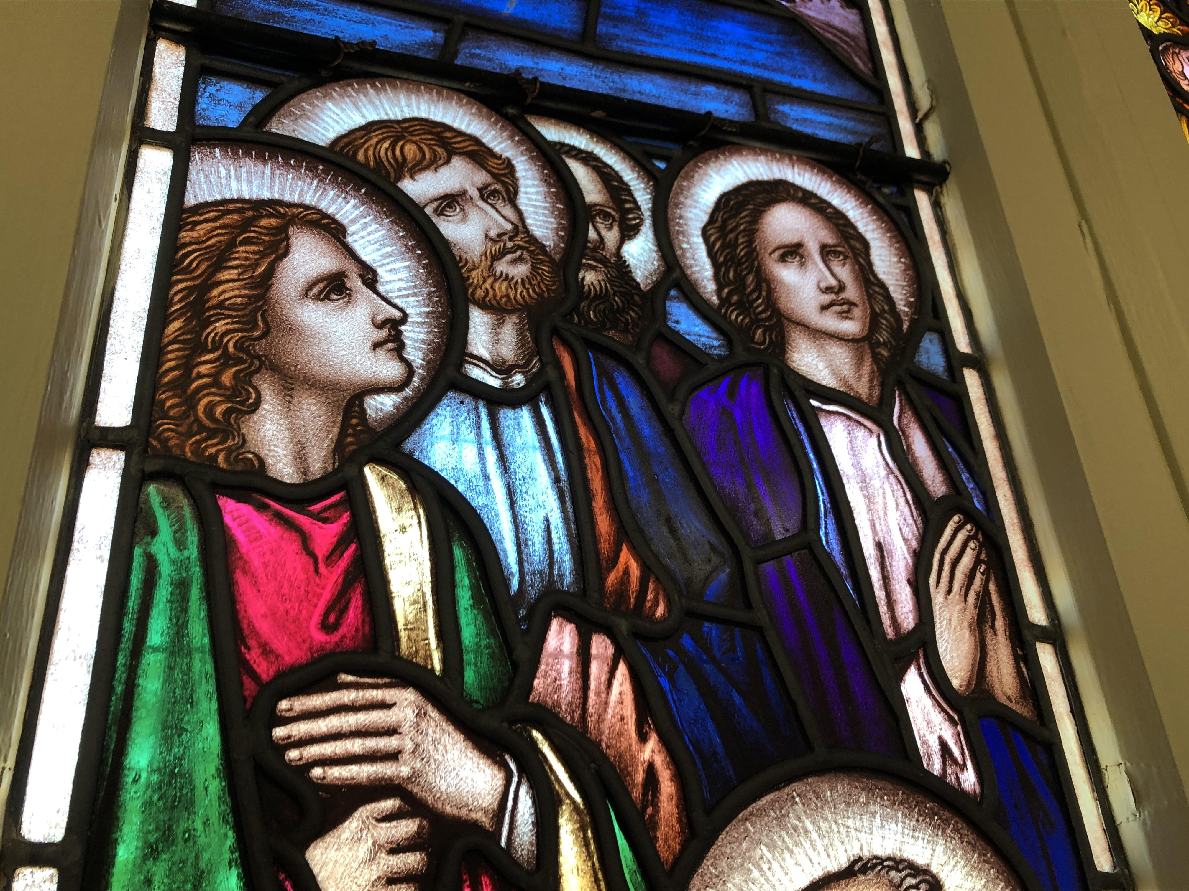 This window was donated by the Calvert family